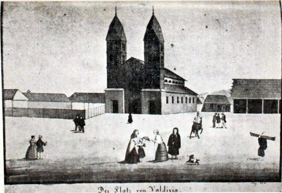 Arms Square of Valdivia City, Actual Republic Square, next to the Cathedral, in the same location of the current (the 8th Cathedral, now is the number 14 ° from the first created for the founding of the City) and the way to the dock, now Freedom Ride